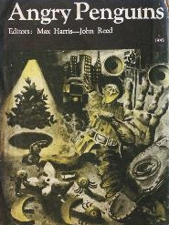 Cover of the Dec 1945 issue of Angry Penguins, featuring a cover design by Albert Tucker (1867-1944)